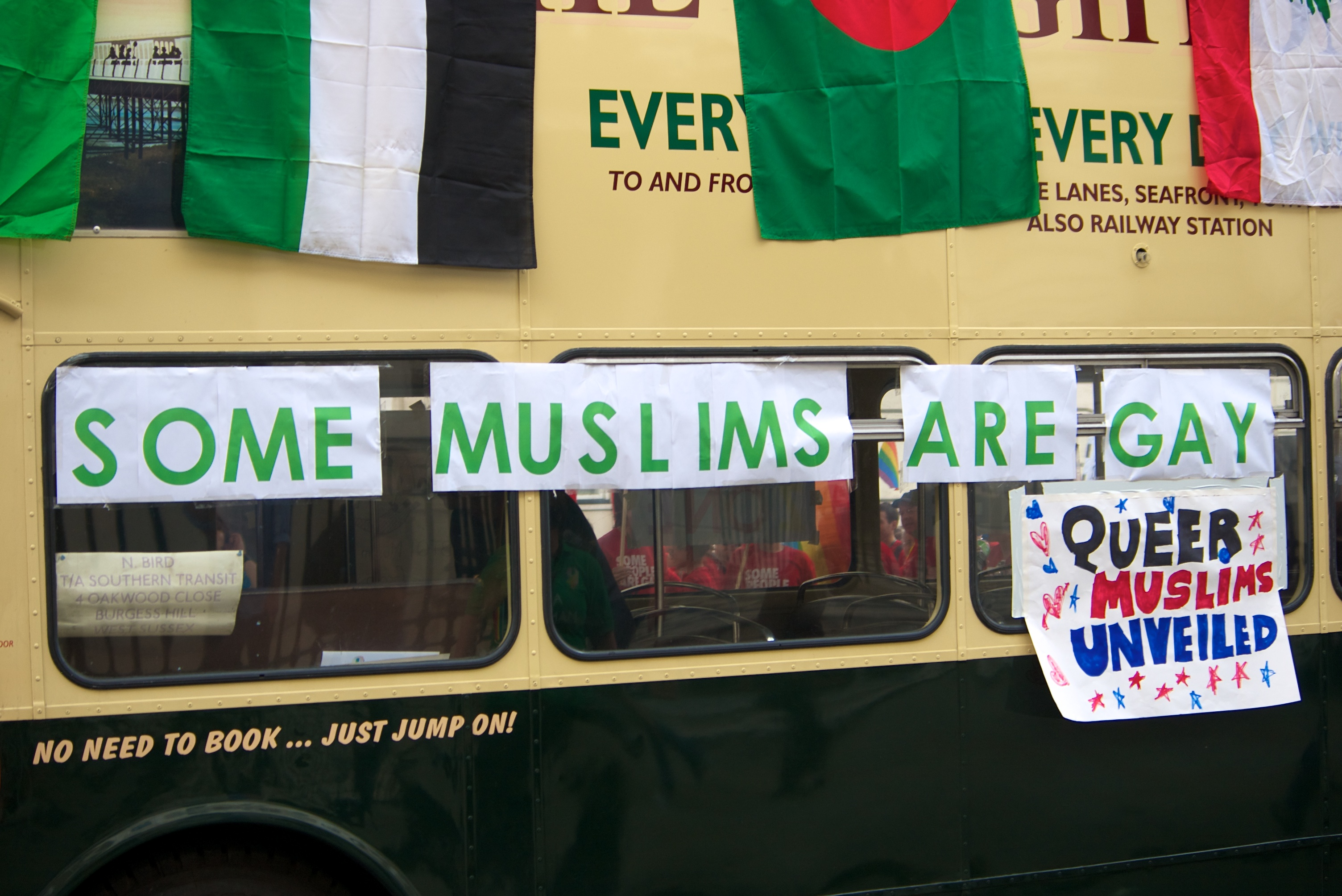 Pride London 2011, near Portland Place.